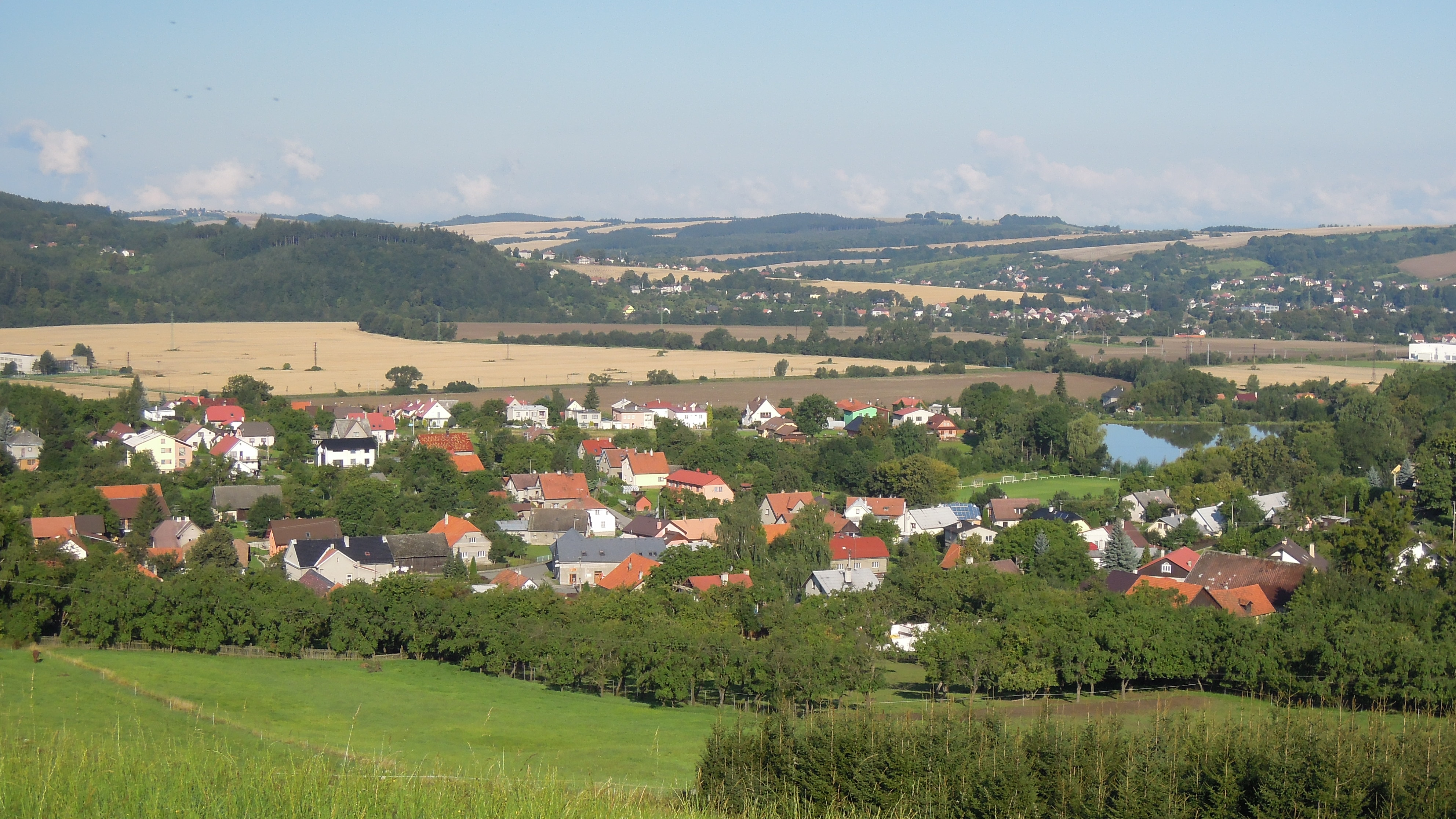 Podlesí, Zlín Region, Czech Republic